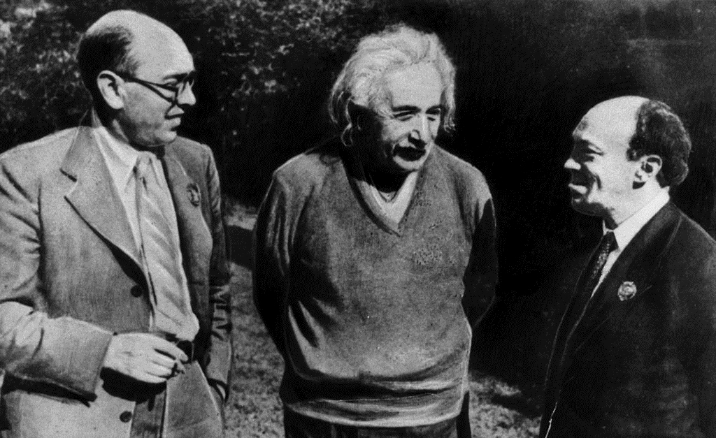 The German physicist Albert Einstein talking to the Yiddish poet Itsik Fefer and the Russian actor Solomon Mikhoels. USA, 1943